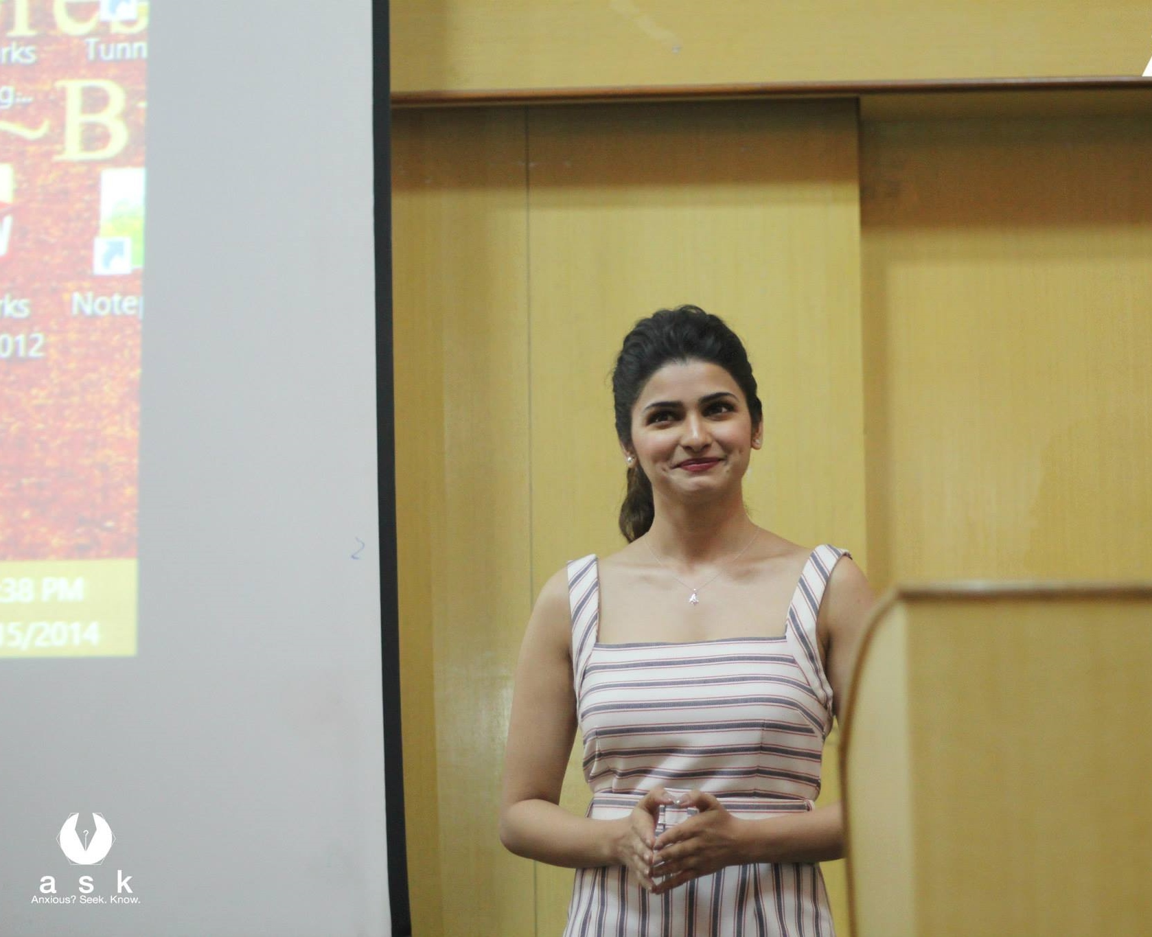 Prachi Desai at inauguration of ASK campaign, IIT Bombay